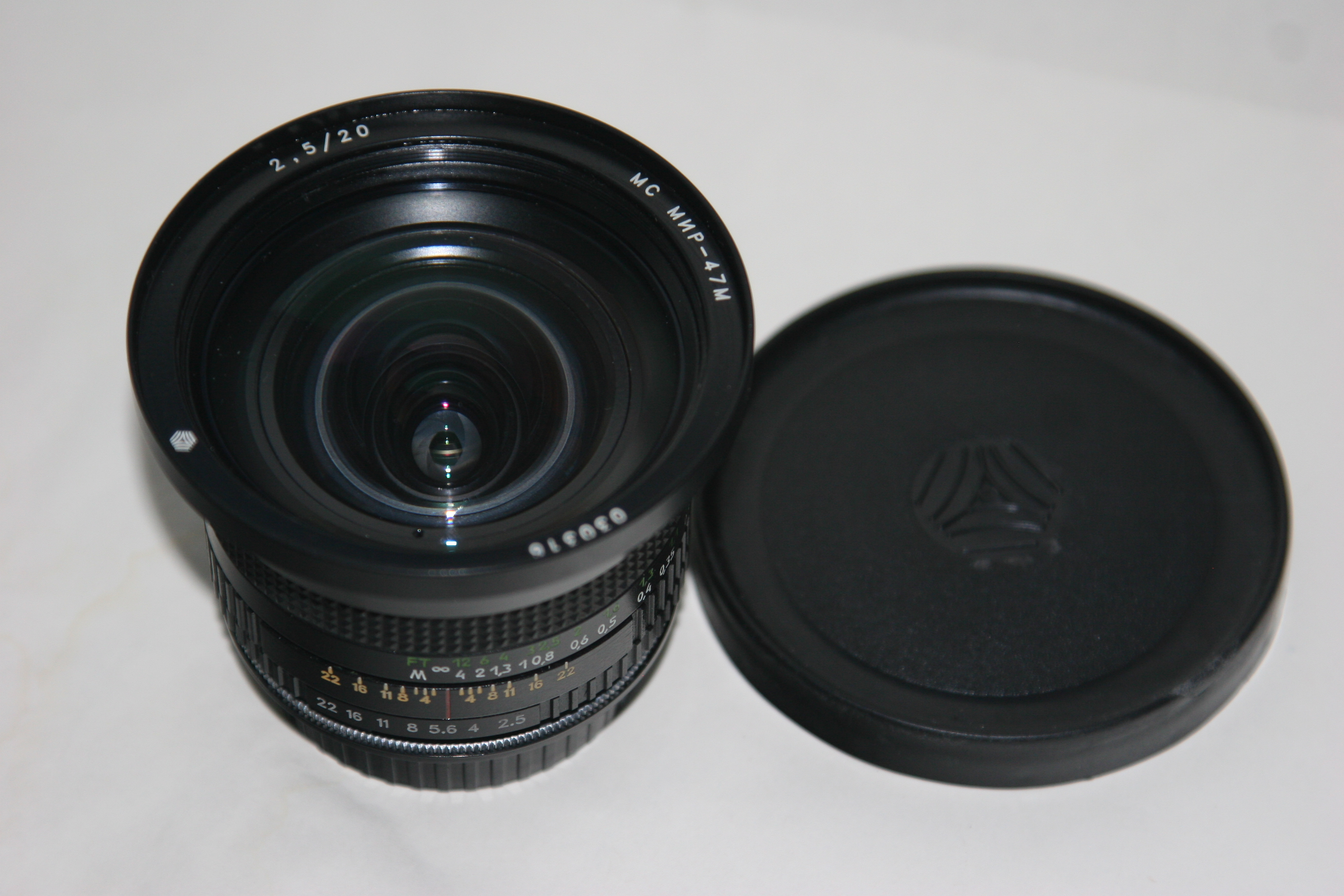 MC Mir-47M 2,5/20 - Soviet wide angle prime lens